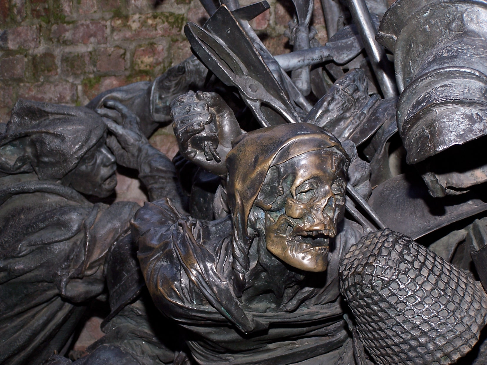 Monument in Dusseldorf, Germany of the Battle of Worringen [1]